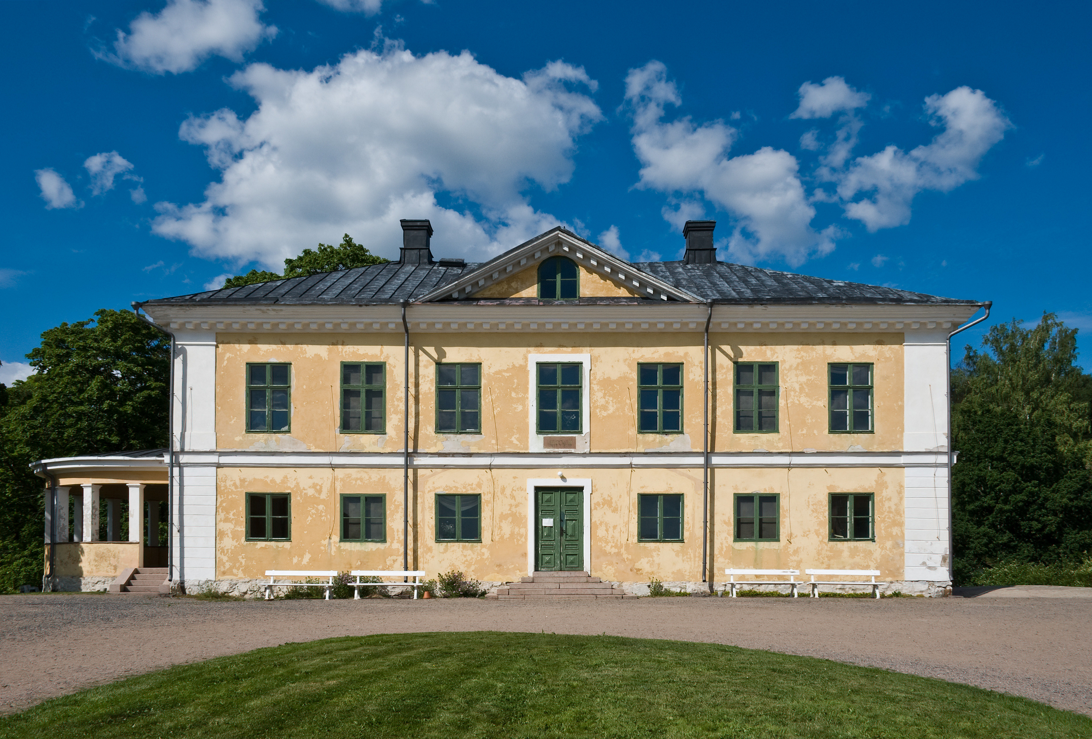 Brinkhall Manor, built in the 1790s, in Kakskerta island, Turku, is the first neoclassical building in Finland.